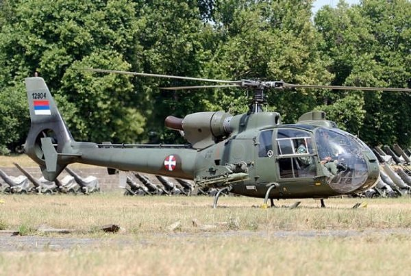 Serbian air force helicopter Soko Gazelle during a exercize "Dunavska straza 07" .